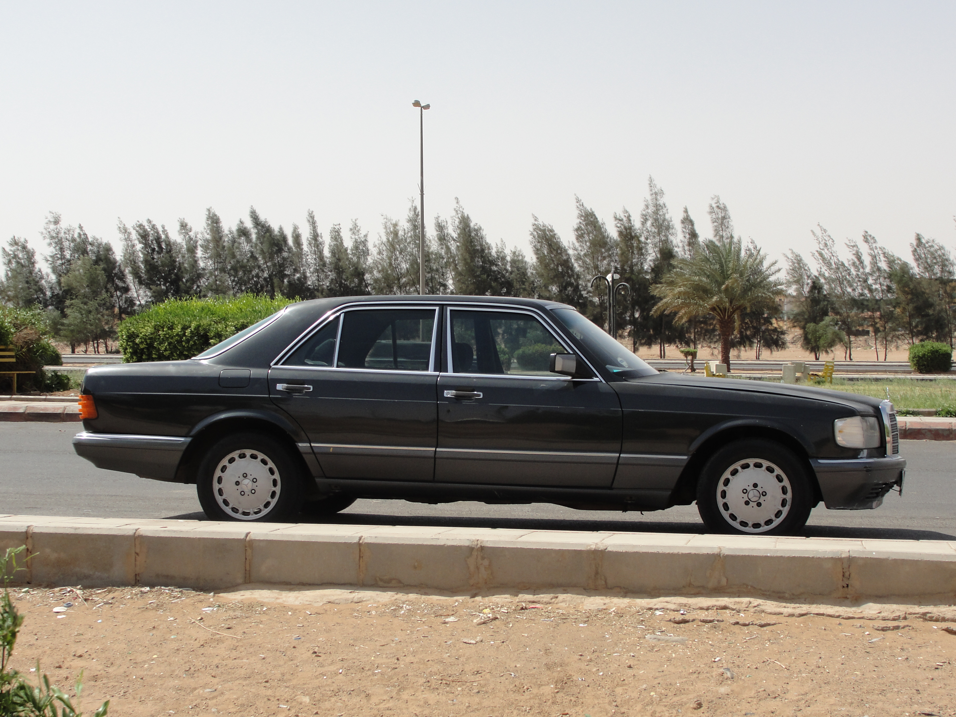 1989 Mercedes 300 SE